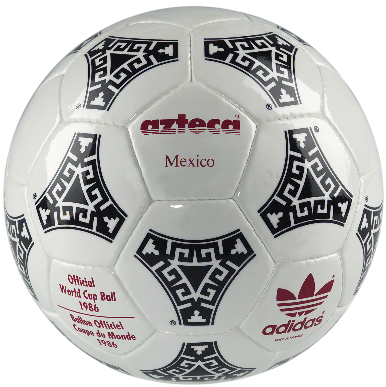 The Match Ball for the 1986 FIFA World Cup revolutionized footballs and football production techniques. The Adidas Azteca was the first ever synthetic FIFA World Cup™ Match Ball. The use of synthetic material increased its durability and further minimized water absorption. With its never-before-achieved performance on hard ground, at high altitude, and in wet conditions, Azteca represented a massive leap forward for the game.